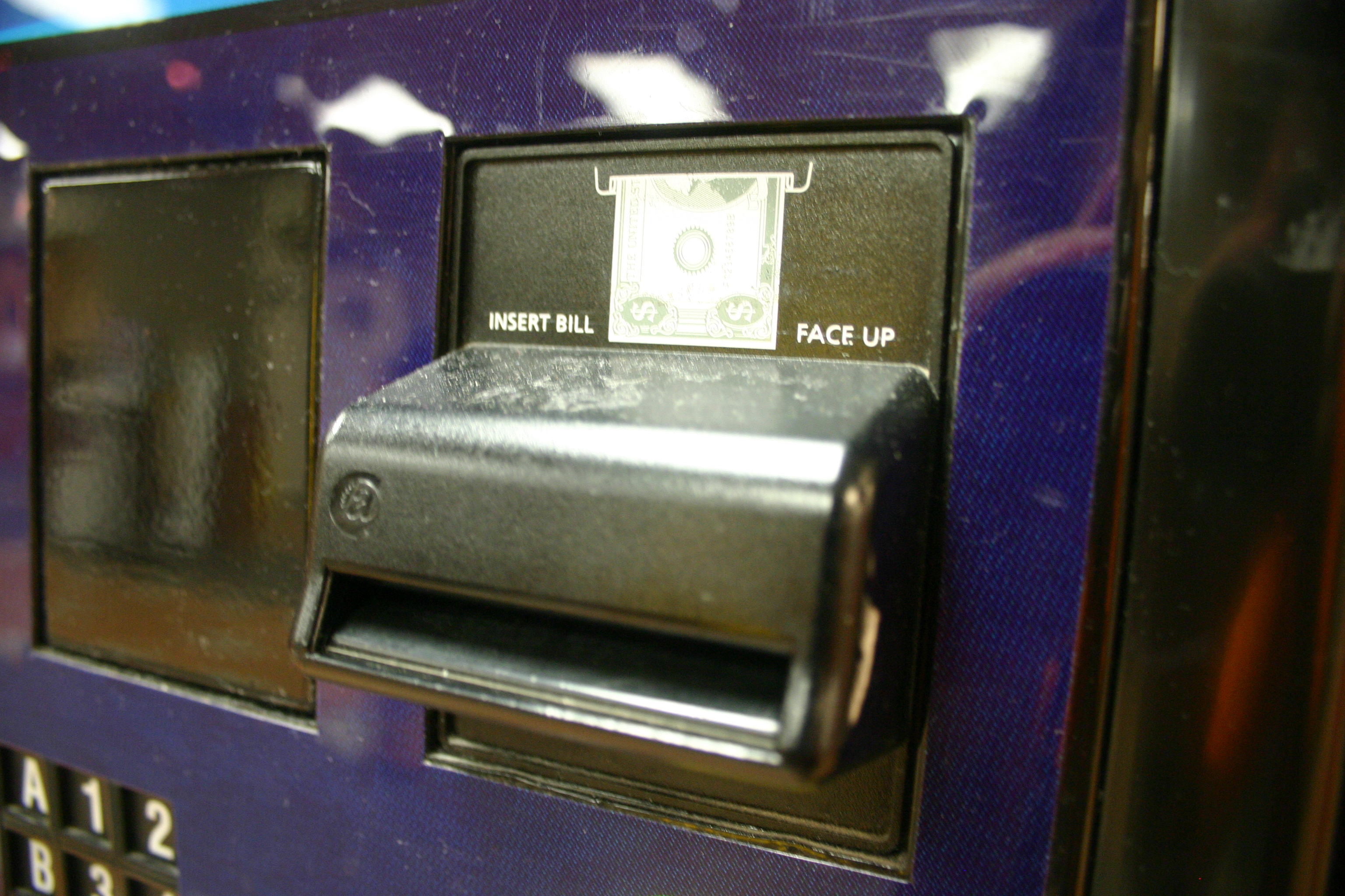 Photo of slot for change machine, in Framingham, MA. Photo by Brian Katt.